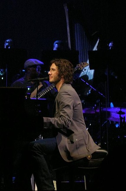 The American singer and musician Josh Groban during his concert in the Palais des Congrès, Paris, June 2007.